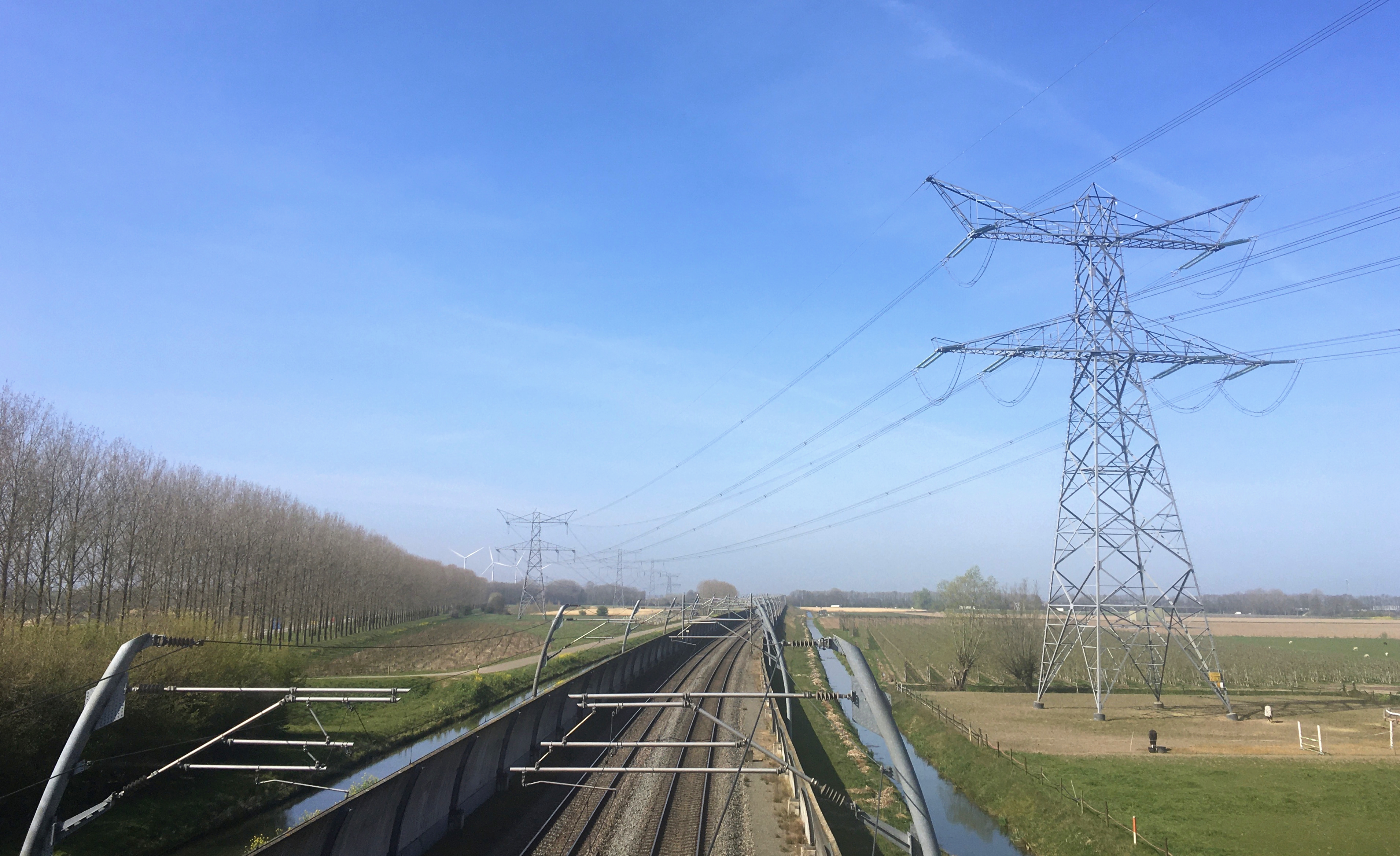 The Betuweroute (a double track freight railway from Rotterdam to Germany) near Bemmell, Lingewaard